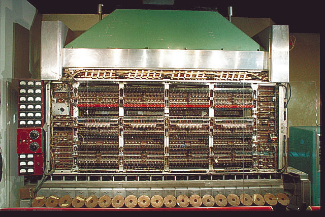 IAS machine/computer created at Princeton Institute for Advanced Study in the 1940ies by a team involving John von Neumann.